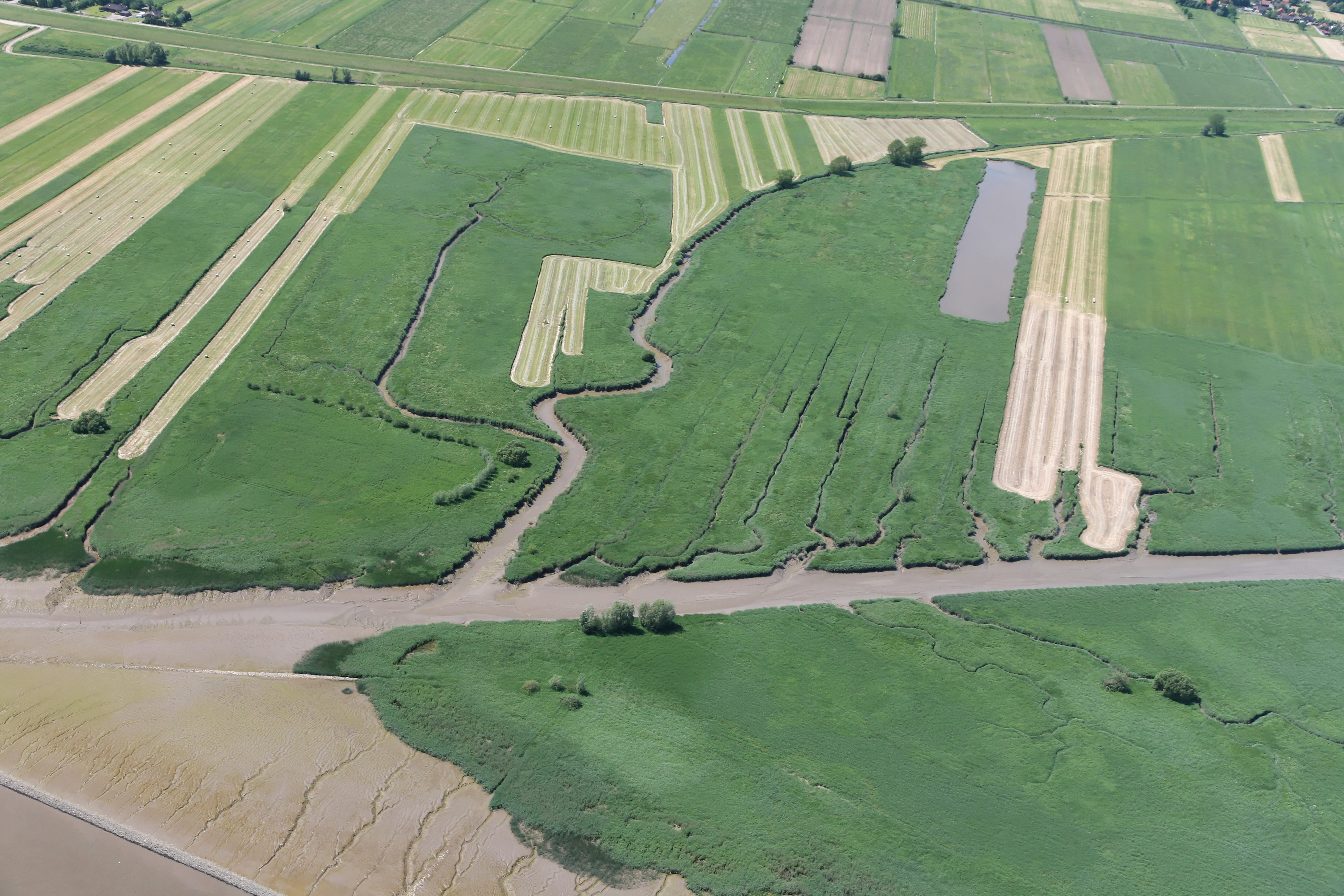 Aerial photograph of Schweiburg, a branch of the river Weser in Landkreis Wesermarsch, Lower Saxony (Germany)